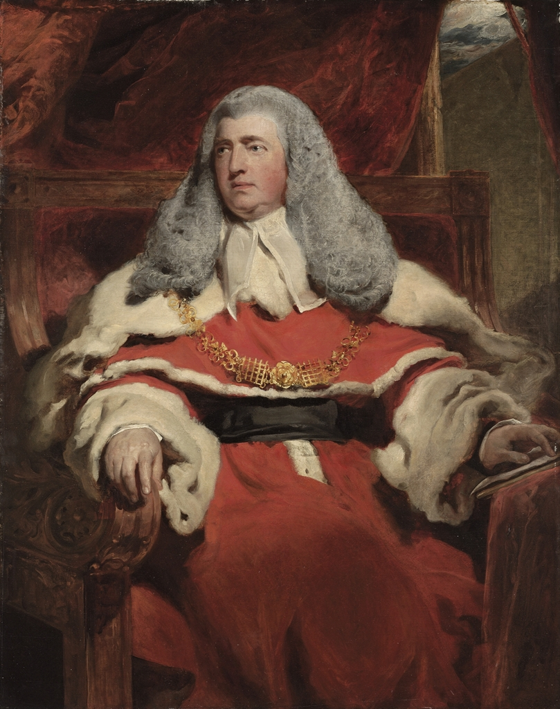 Portrait of Edward Law, 1st Baron Ellenborough (1750-1818), M.P., Lord Chief Justice of England (1750-1818), three-quarter-length, in judicial robes with his chain of office